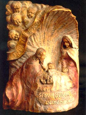 Word by body, woodcutter Šilar.